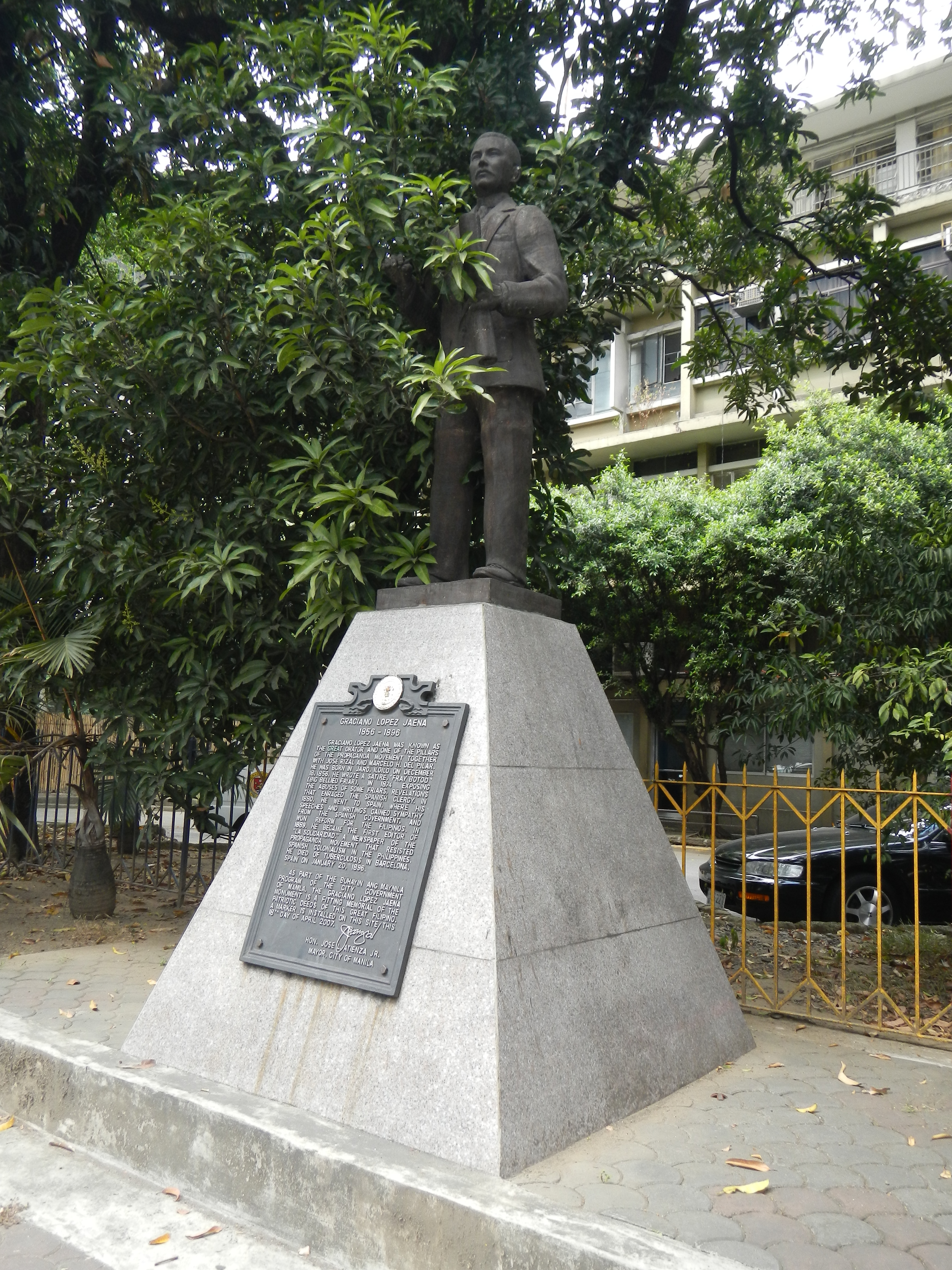 Graciano López Jaena monument in front of the National Press Club of the Philippines, Intramuros, Manila.